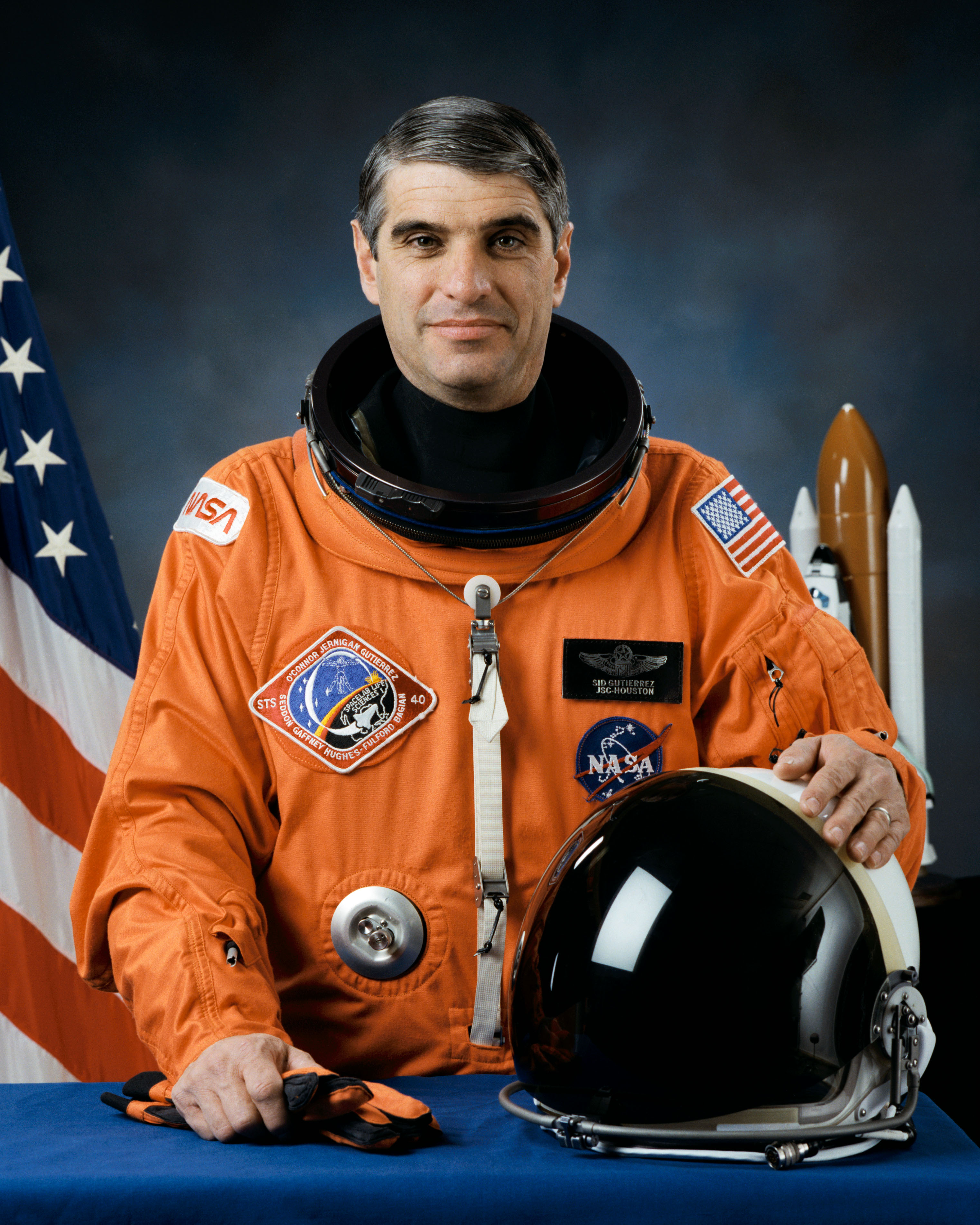 Astronaut Sidney Gutierrez Official portrait of Sidney M. Gutierrez, United States Air Force (USAF) Lieutenant Colonel, member of Astronaut Class 10 (1984), and space shuttle pilot. Gutierrez wears a launch and entry suit (LES) with his helmet displayed on table top at his left.